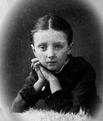 Lucy Maud Montgomery, 1884 (age 10)